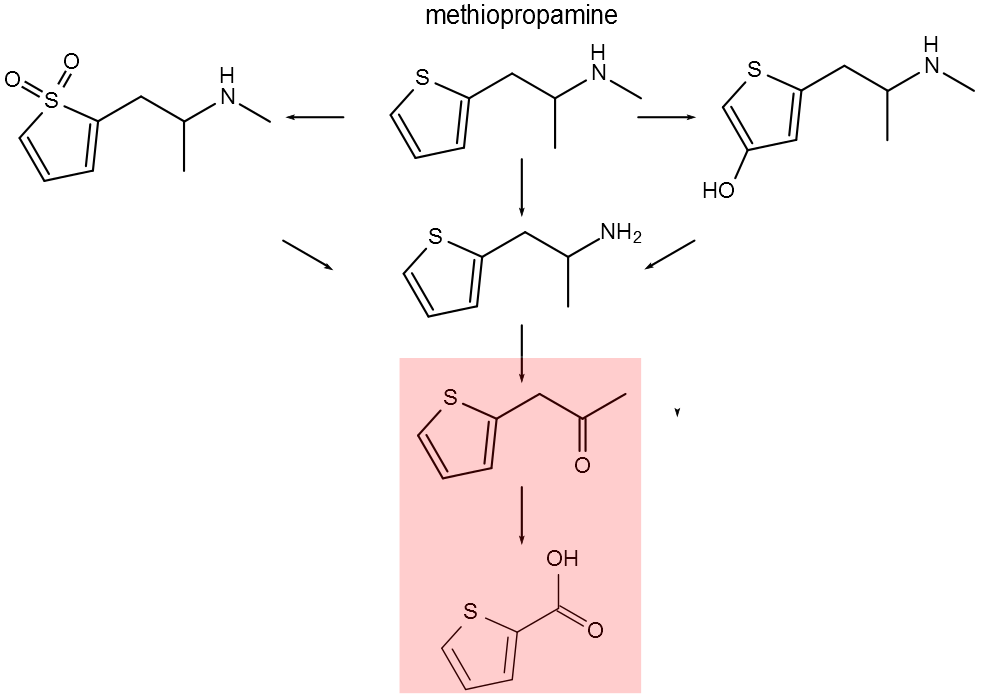 2d chart of methiopropamine metabolism. Sources collected from different places, they are mostly all in the article. Compounds on red are inactive.